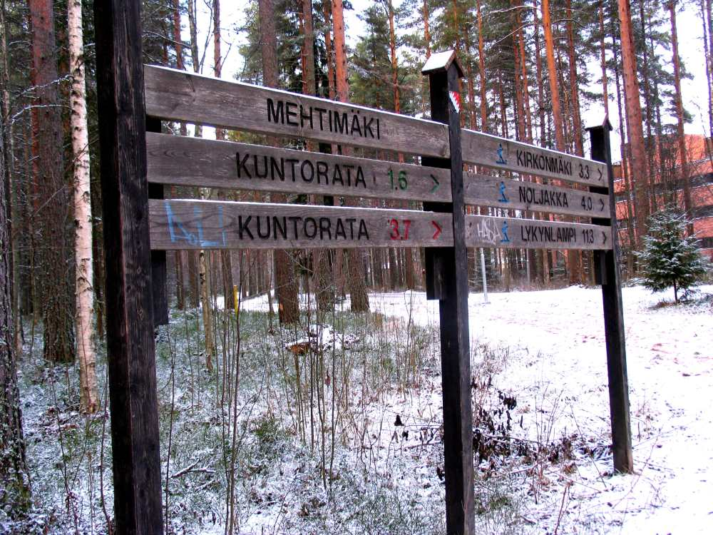 Joensuu Mehtimäki recreation area